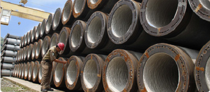 PRODUK WIKA BETON